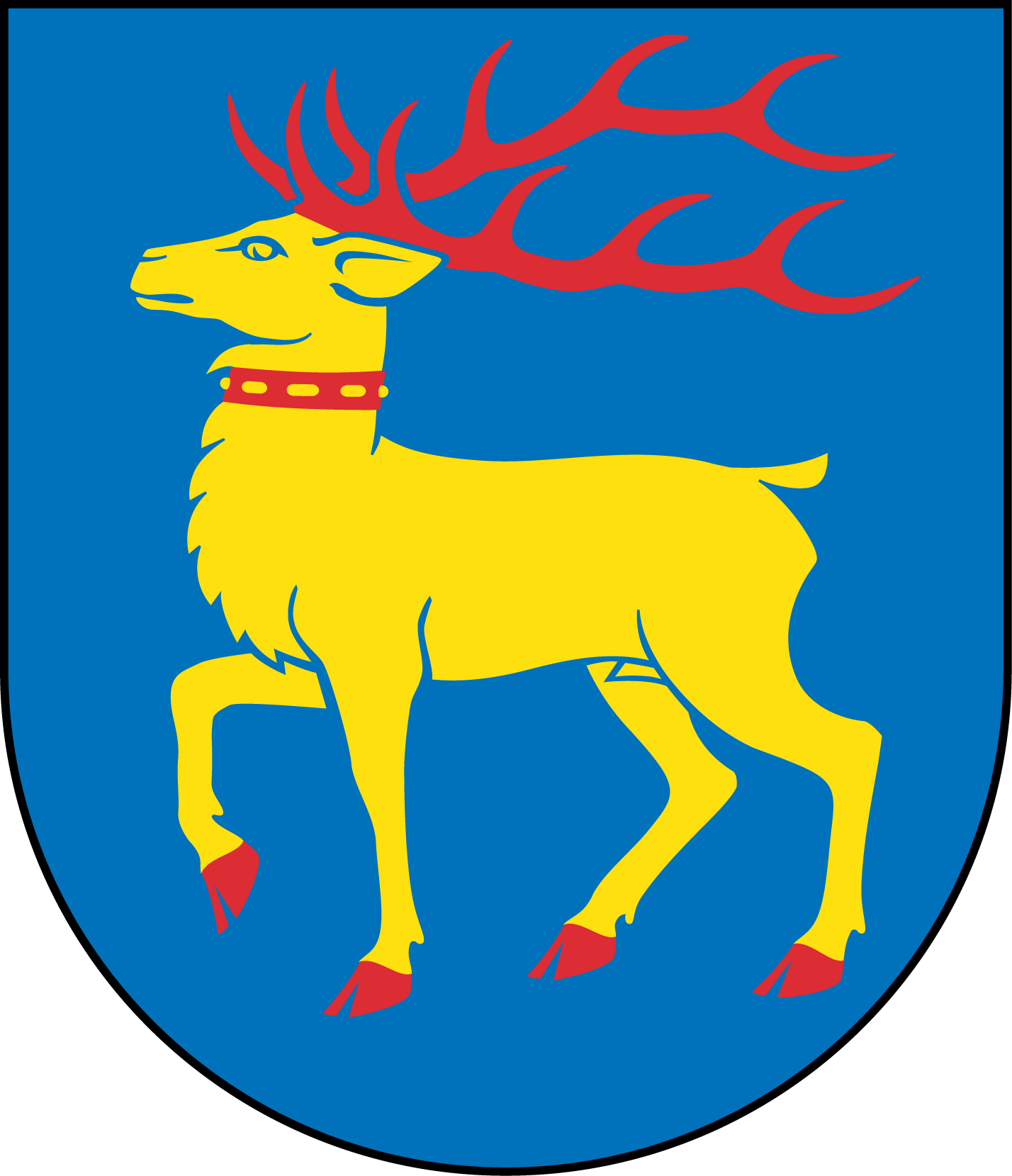 Coat of arms of the province of Öland, Sweden. Painted by Vladimir A. Sagerlund when he was the heraldic artist at the National Archives of Sweden (Riksarkivet). This representation of a coat of arms is potentially different from the one used by the armiger (municipality or organisation) in question. = ⇑“Sable, a lionrampant or” This coat of arms was drawn based on its blazon which – being a written description – is free from copyright. Any illustration conforming with the blazon of the arms is considered to be heraldically correct. Thus several different artistic interpretations of the same coat of arms can exist. The design officially used by the armiger is likely protected by copyright, in which case it cannot be used here.Individual representations of a coat of arms, drawn from a blazon, may have a copyright belonging to the artist, but are not necessarily derivative works. Further information: Commons:Coats of arms and Template:Coa blazon